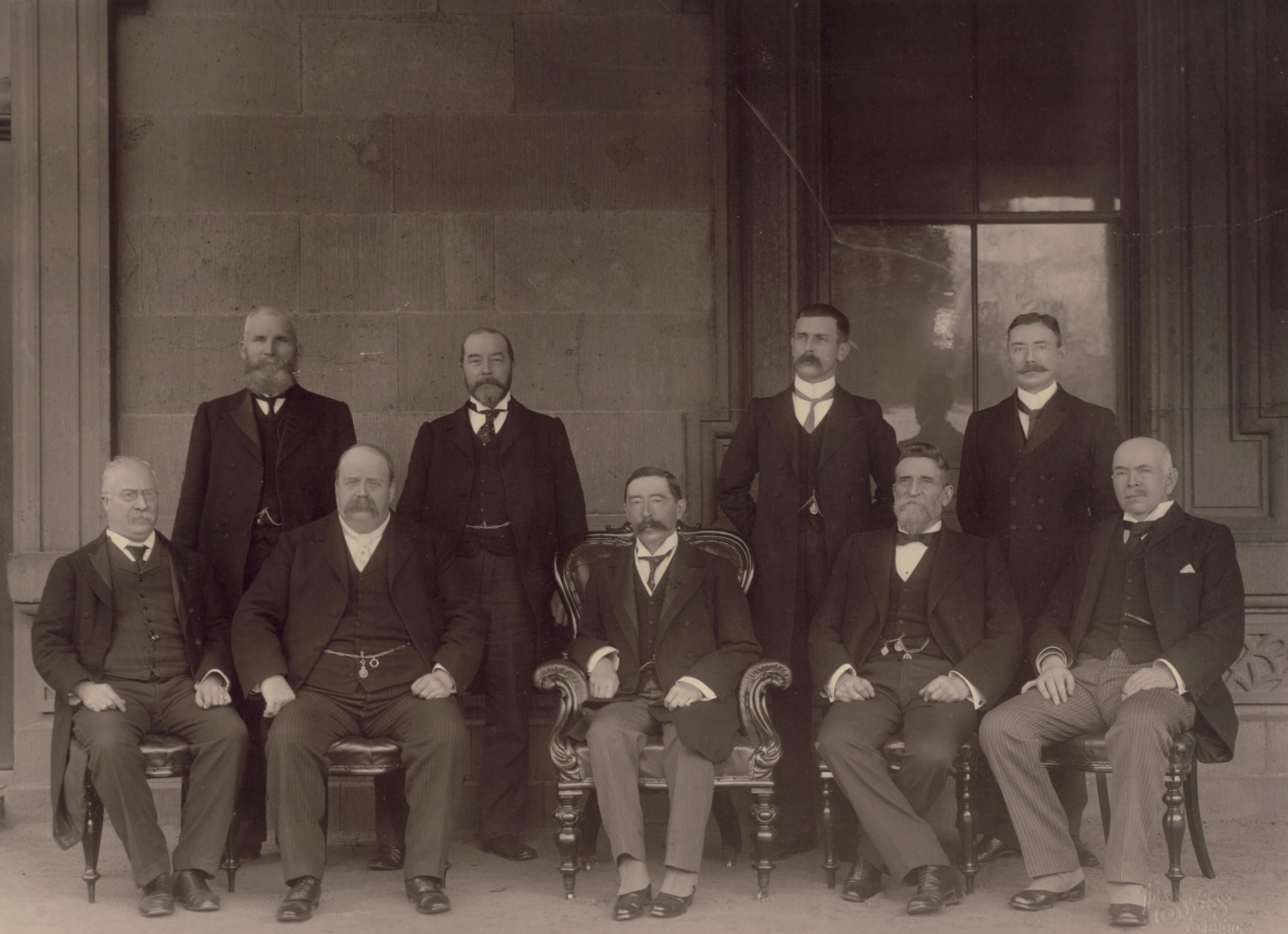 Photograph of members of the Reid-McLean Ministry. Back row (L-R): Sydney Smith, Postmaster-General; Dugald Thomson, Minister for Home Affairs; James McCay, Minister for Defence; James Drake; Vice-President of the Executive Council.Front row: George Turner, Treasurer; George Reid, Prime Minister; Lord Northcote, Governor-General; Allan McLean, Minister for Trade and Customs; Josiah Symon, Attorney-General.